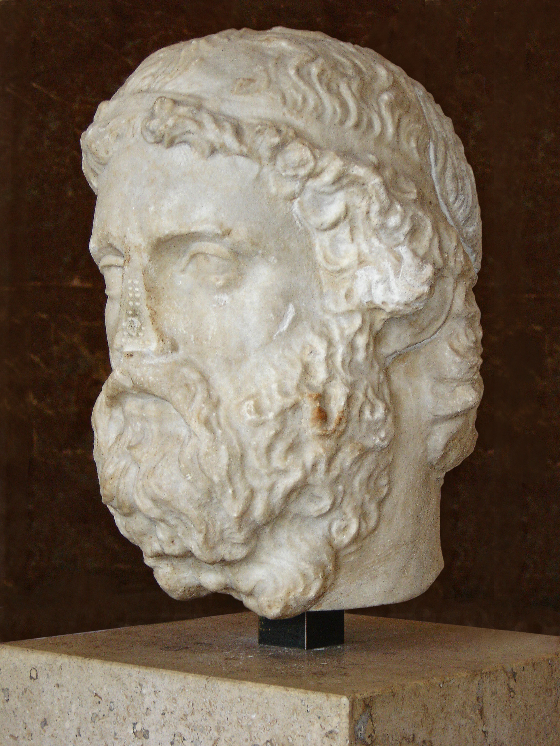 Portrait of the Greek poet Anacreon of Teos. Marble, Roman Imperial Period (2nd or 3rd century).